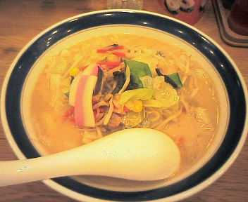 Champon, taken by original uploader on August 28th, 2005.